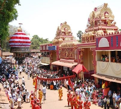 Shri Kshetra Kateelu